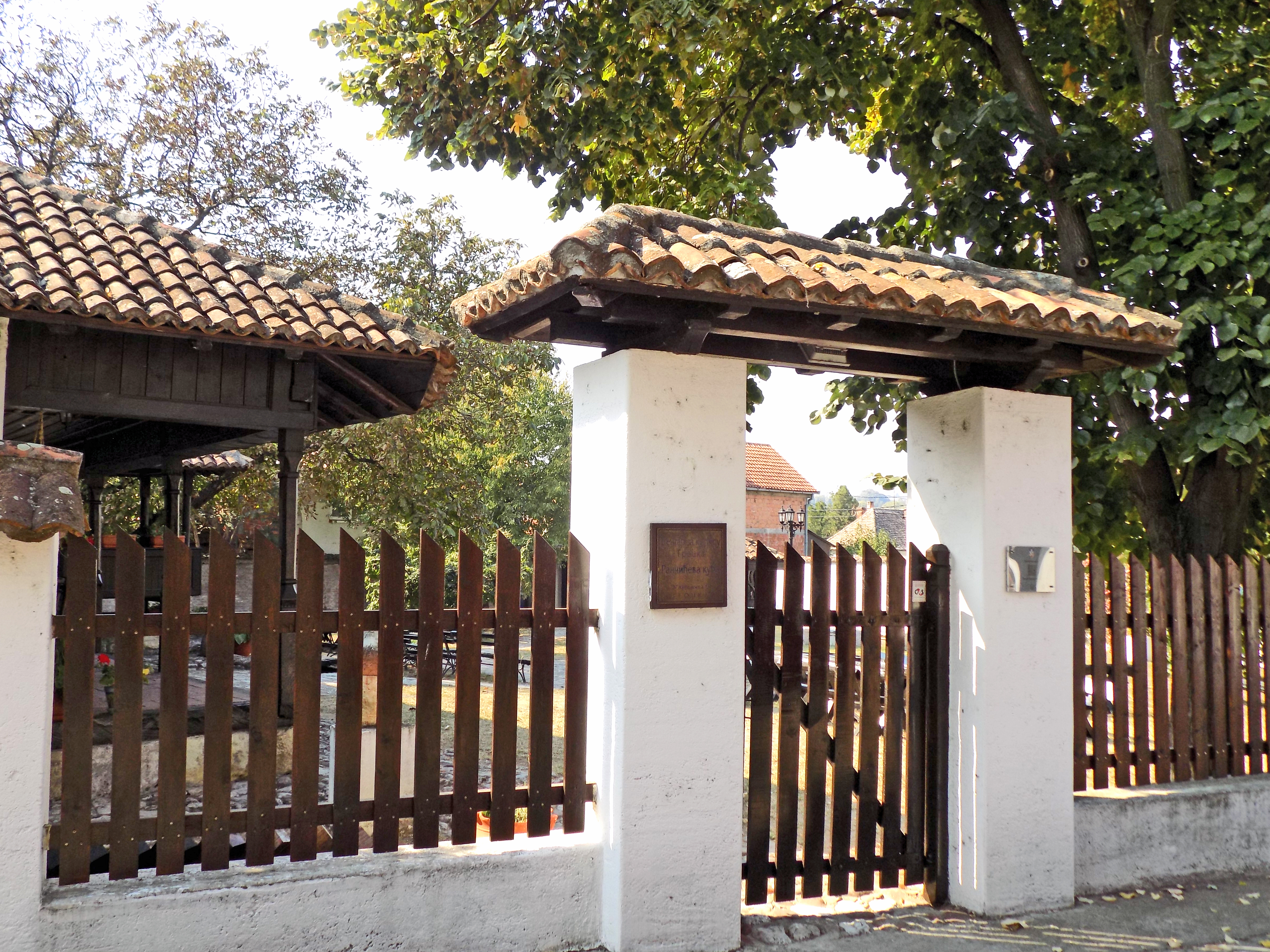 Rancic's house in Grocka, where the Center for Culture Grocka is located